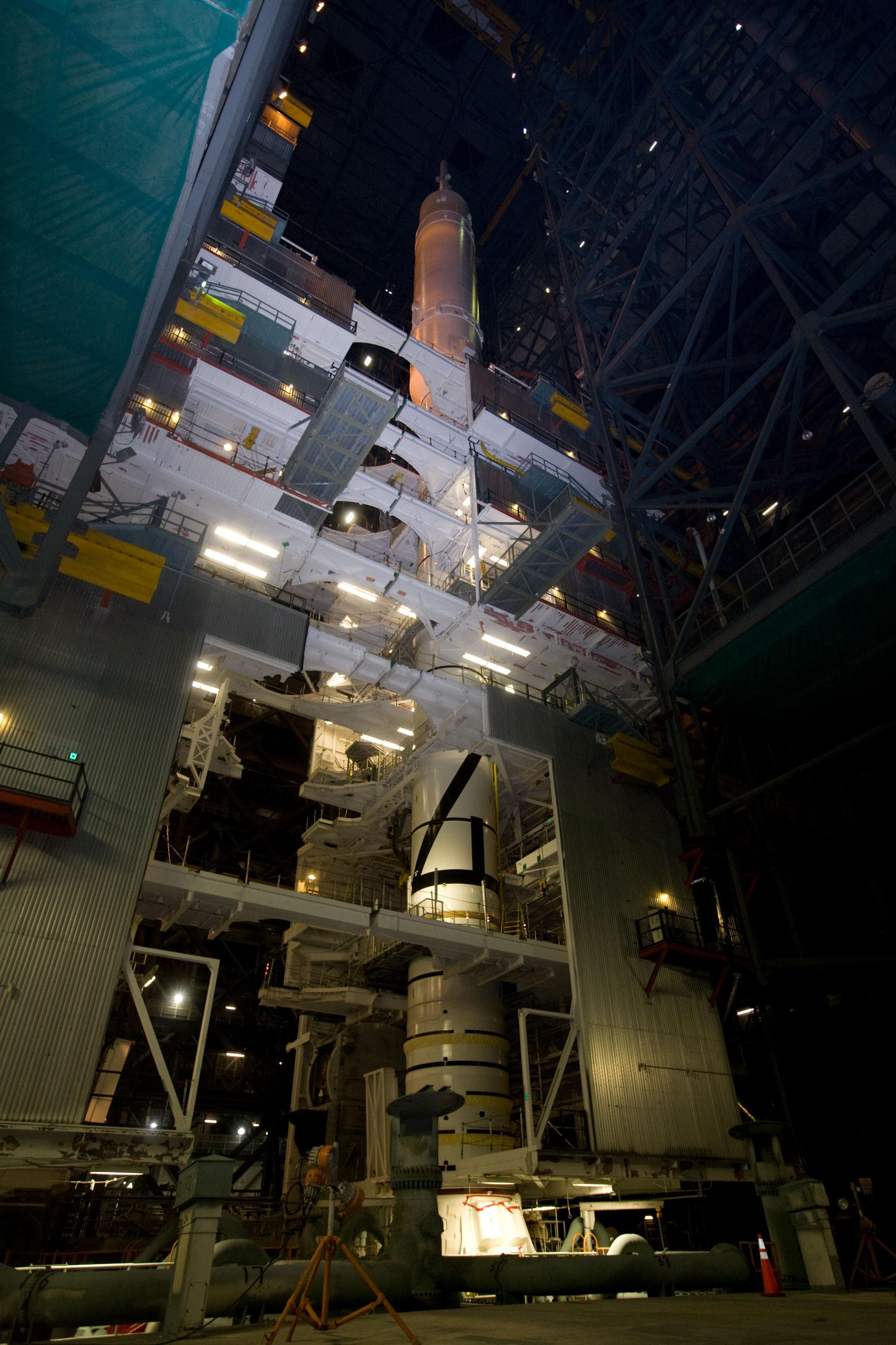 Standing tall at its fully assembled height of 327 feet, the Ares I-X is one of the largest rockets ever processed in the Vehicle Assembly Building's High Bay 3, Super Stack 5 at the Kennedy Space Centre. Ares I-X rivals the height of the Apollo Program's 364-foot-tall Saturn V. Five super stacks make up the rocket's upper stage that is integrated with the four-segment solid rocket booster first stage. Ares I-X is the test vehicle for the Ares I, which is part of the Constellation Program to return humans to the moon and beyond.